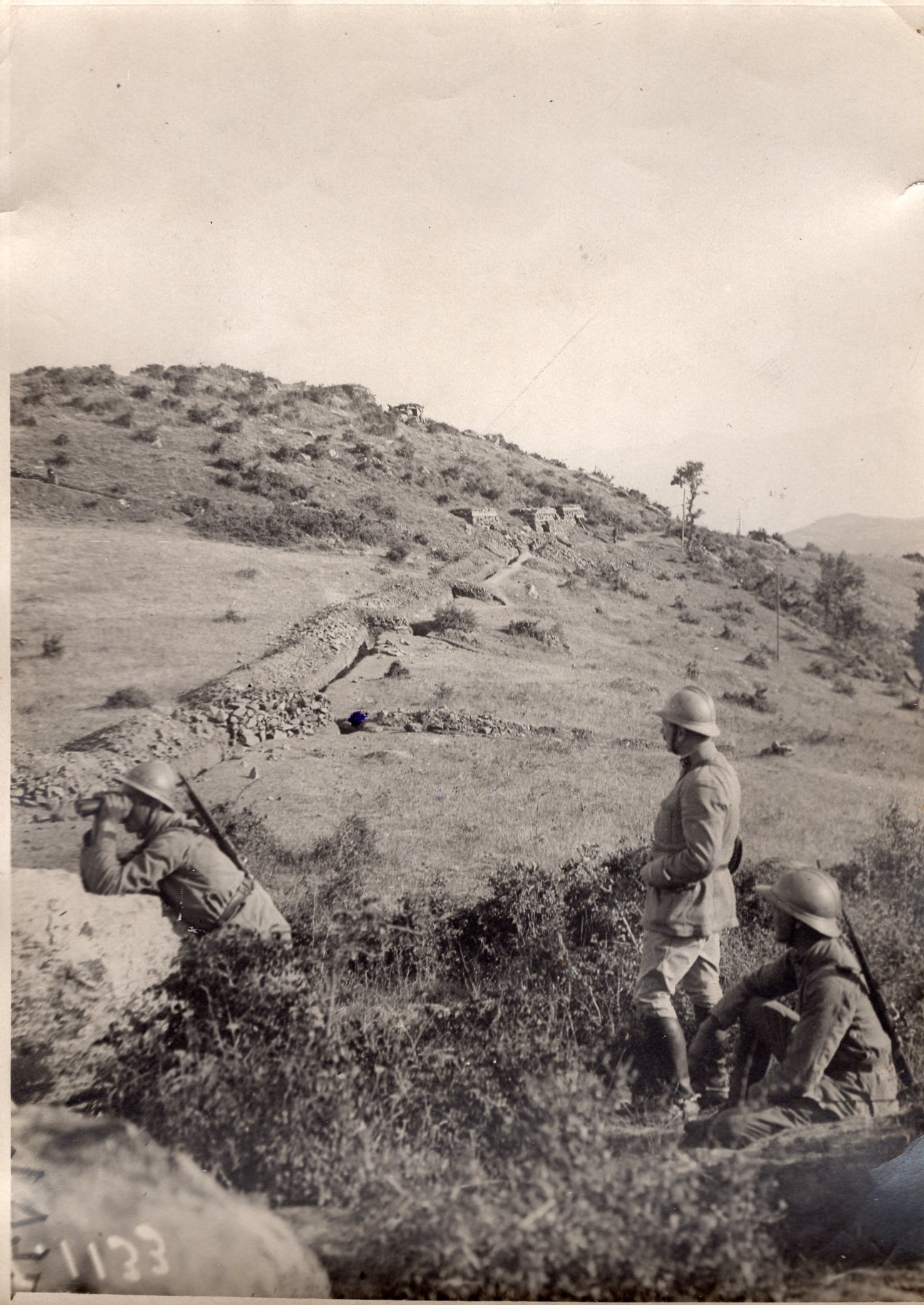 Macedonian Front, front line This media file is produced by Wikipedian in Residence in Category:Wikipedian in Residence at DARM in 2016.